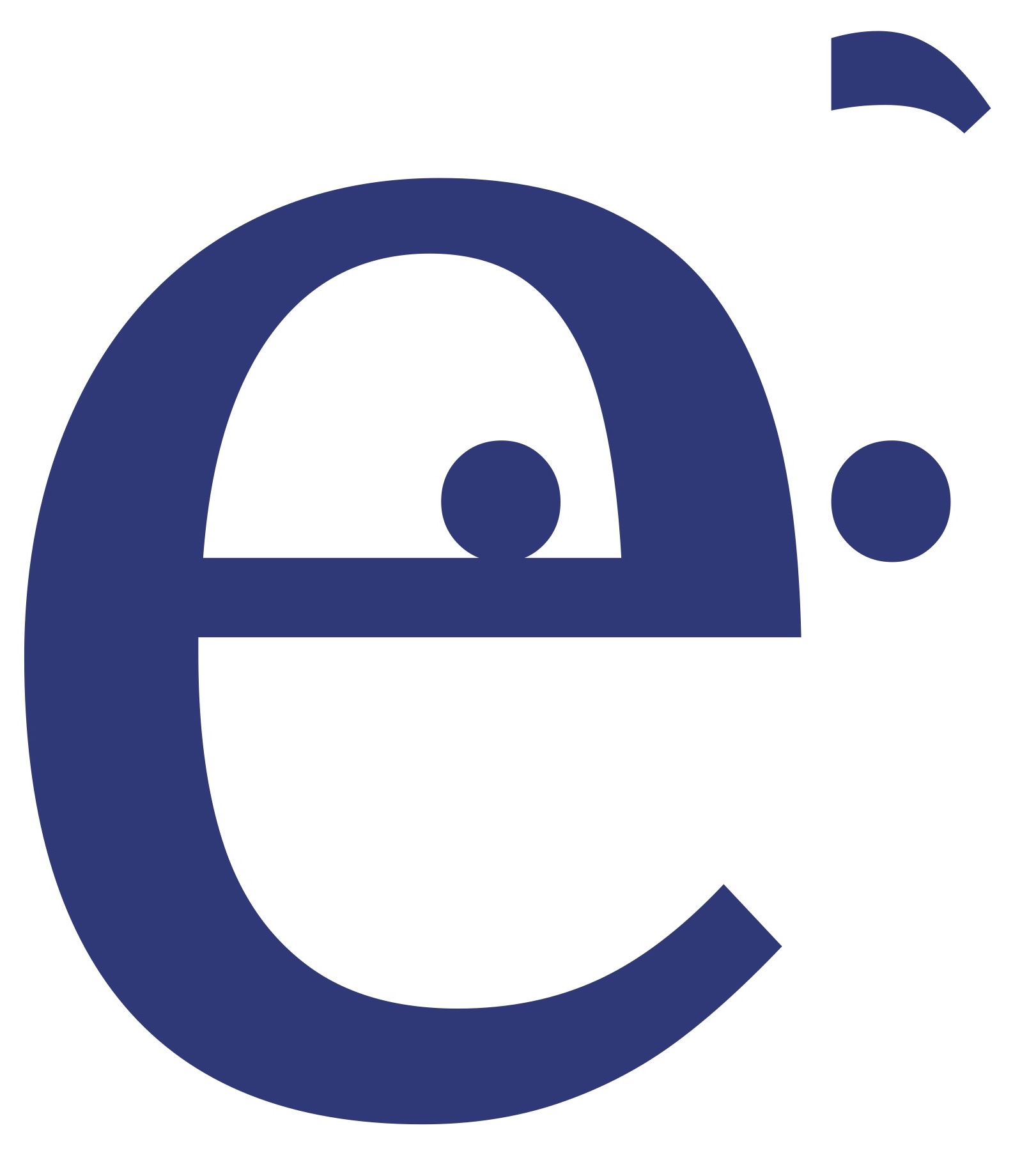 the logo for the international caricature festival Eurocature